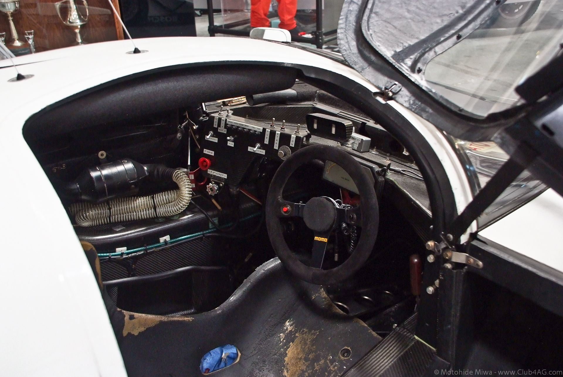 IMSA GTP "EAGLE" #99